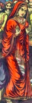 Goddess Sati, wife of Shiva. Sati was a daughter of Daksha.